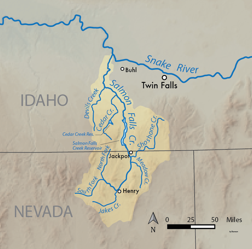 Map showing the Salmon Falls Creek, a tributary of the Snake River in Idaho and Nevada, USA. Shaded relief data from US Geological Survey (public domain).